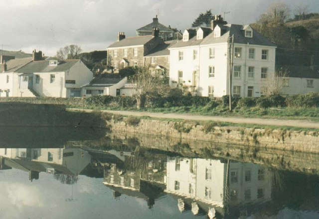 Pentewan Harbour and village The harbour is now non-functioning (for many years) because the channel into it is always silting up with sand from the beach. The village depends on the holiday trade.